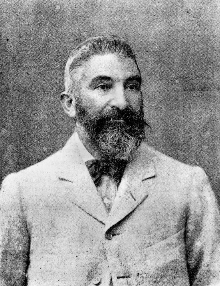 Robert Arthur Johnstone. Formerly Sub-inspector in charge of Native Police in North Queensland and author of 'Spinifex and Wattle'. (Description supplied with photograph).